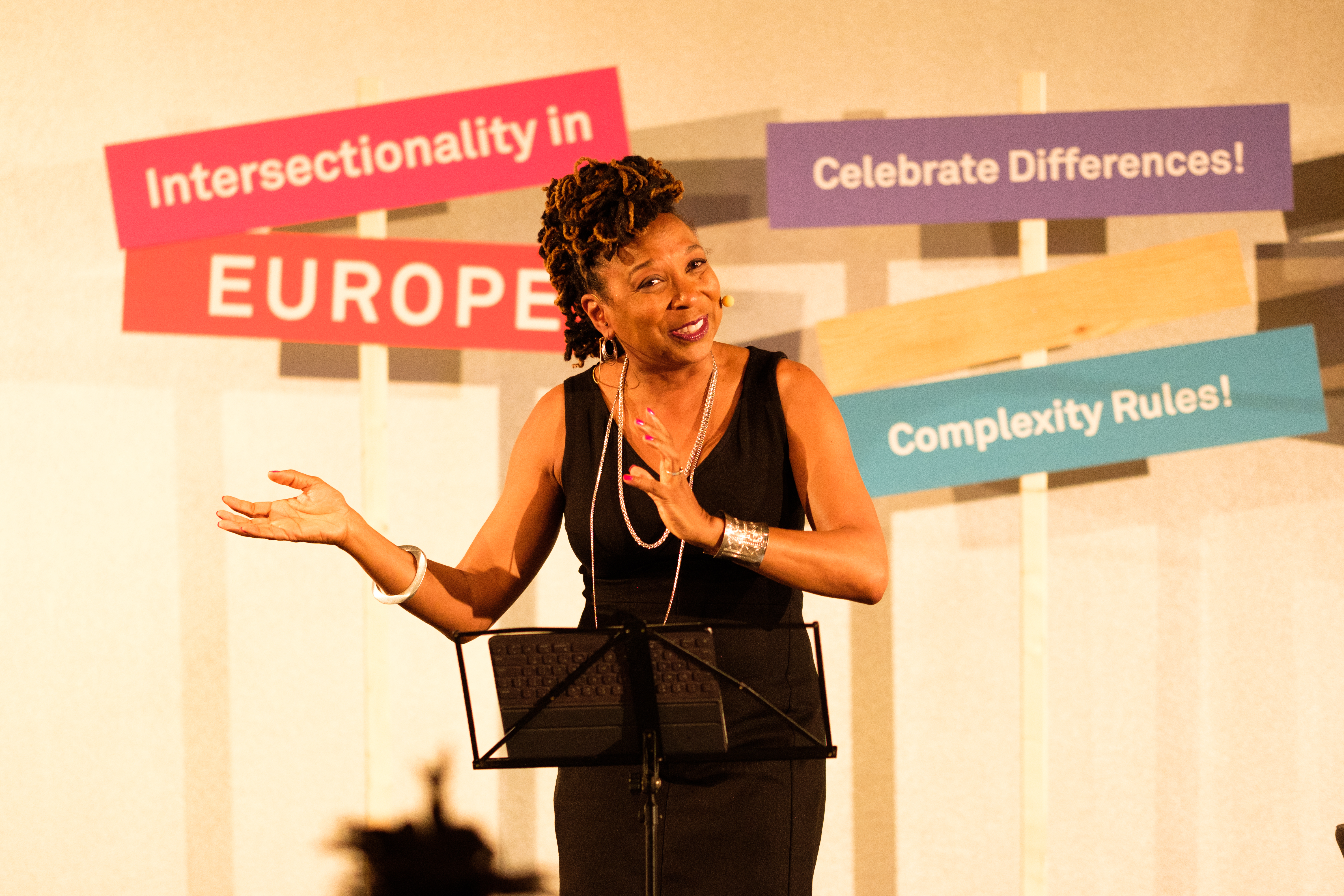 Foto: Mohamed Badarne, CC-BY-SA-4.0